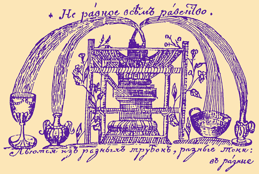 Fountain by Skovoroda "Not equal equality"